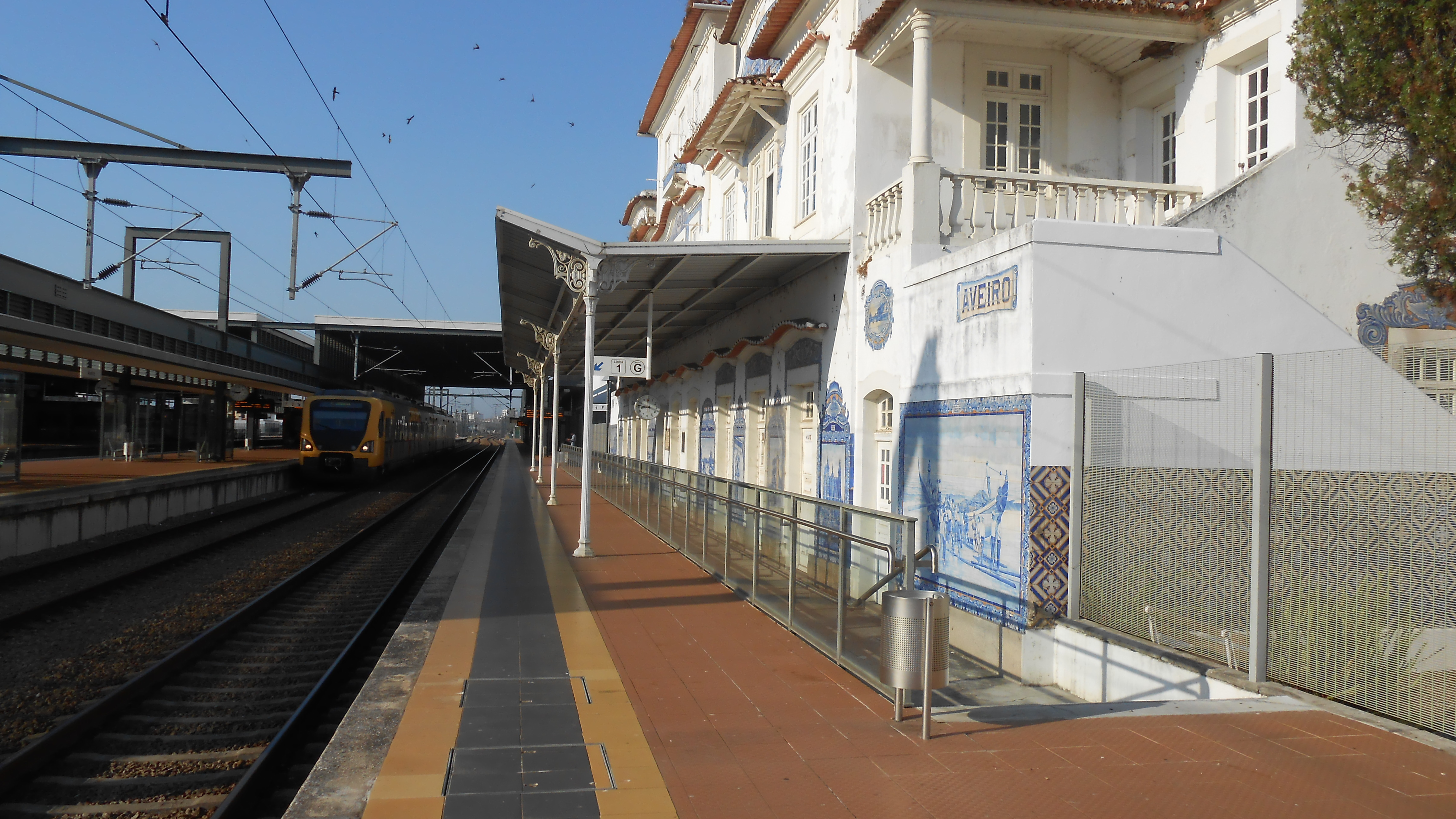 Interior of the Aveiro train station